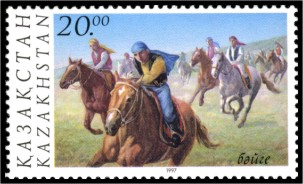 Stamp of Kazakhstan. 1997. December, 30. National sport games. Designed by D. Mukamedjanov. Offset printing on coated paper. Perforation 14. Multicolored. “Bundesdrukerei” Printing House, Berlin. Issued in sheets per 10 (2х5) with margin design. №201. Horse race. Quantity 100 000. Release (collection) price 24-00t.